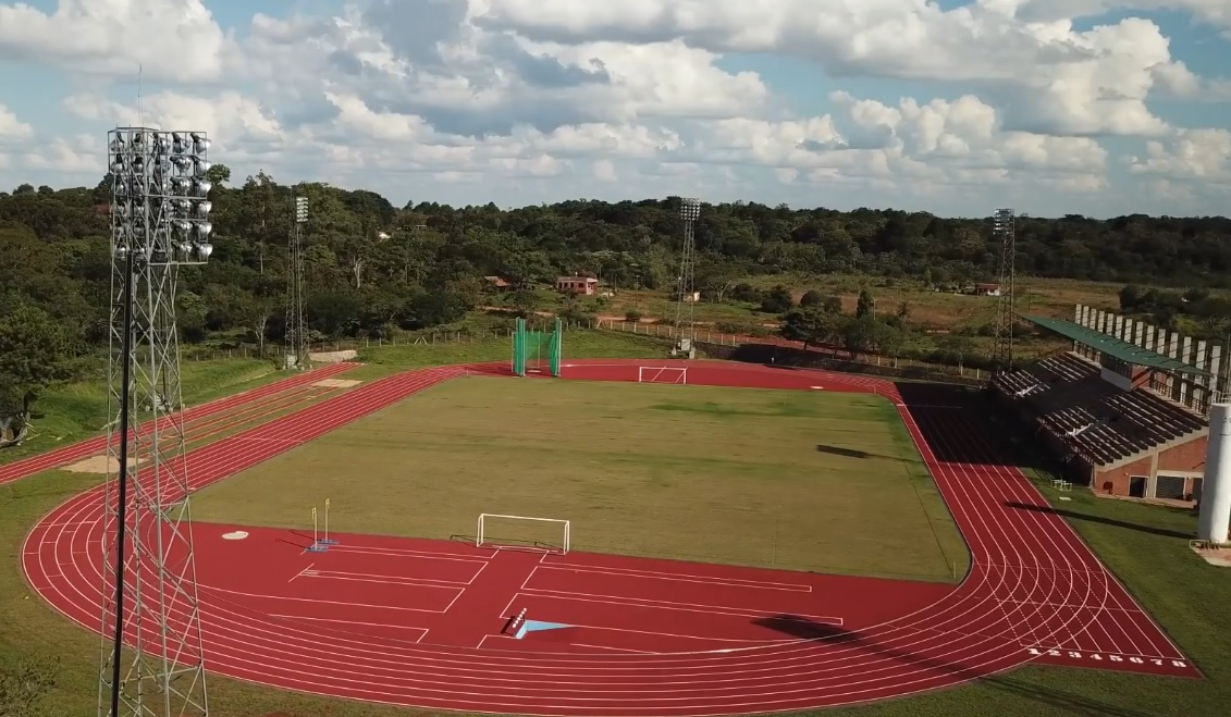 Olimpic stadium in Encarnación, Paraguay